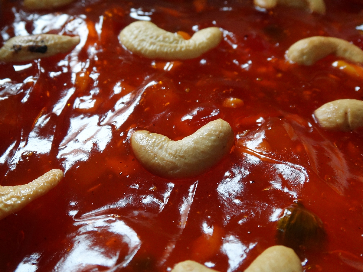 Prepared using starch powder from various sources (maida, corn), it's a gummy sweet treat to have.